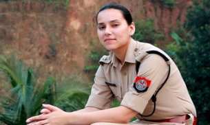 Assam IPS officer